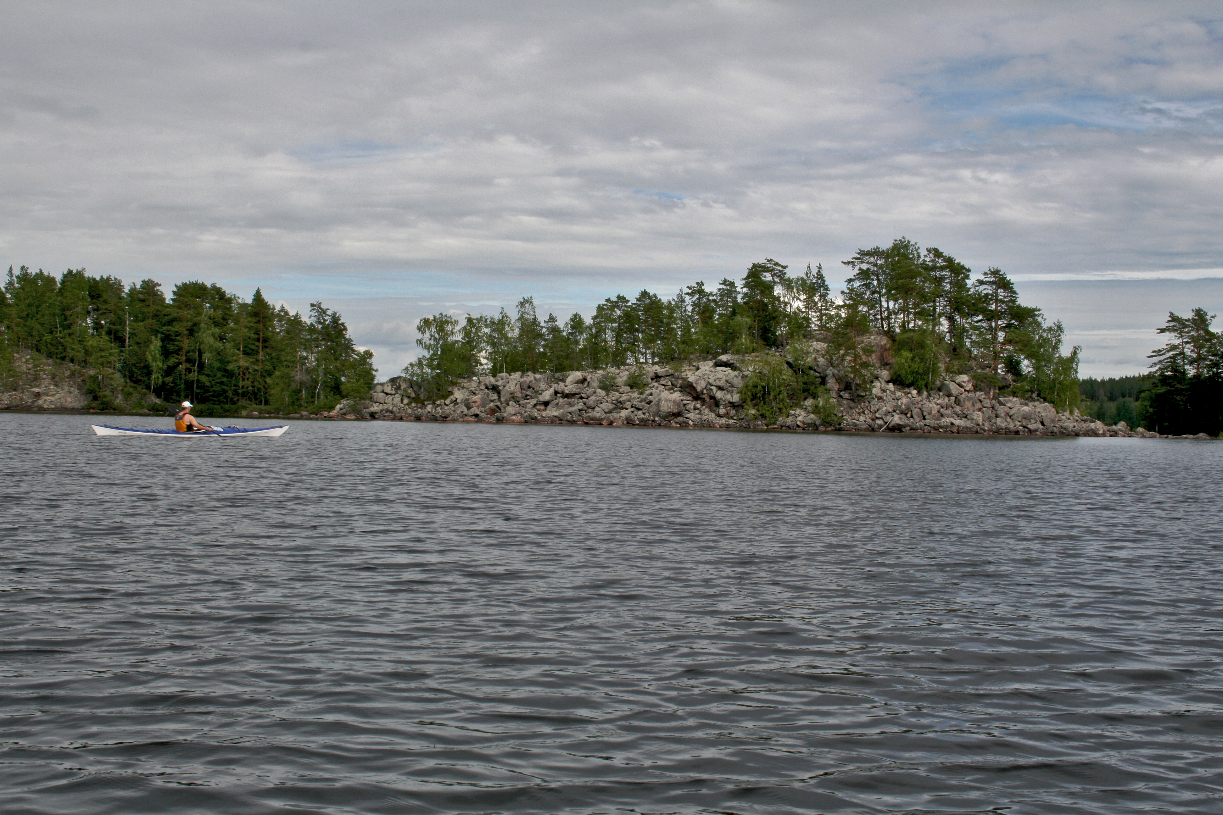 Lake Kuolimo, biggest island on Rohjosaaret, seen from west